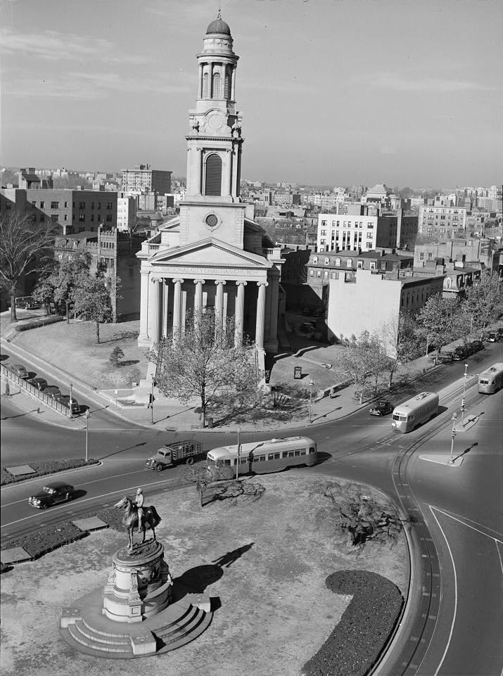 Thomas Circle in Washington, DC. Taken in December 1943.